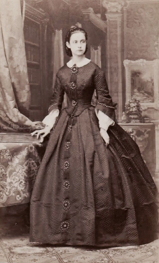 Princess Maria Immaculata of the Two Sicilies (later Archduchess of Austria -Tuscany)